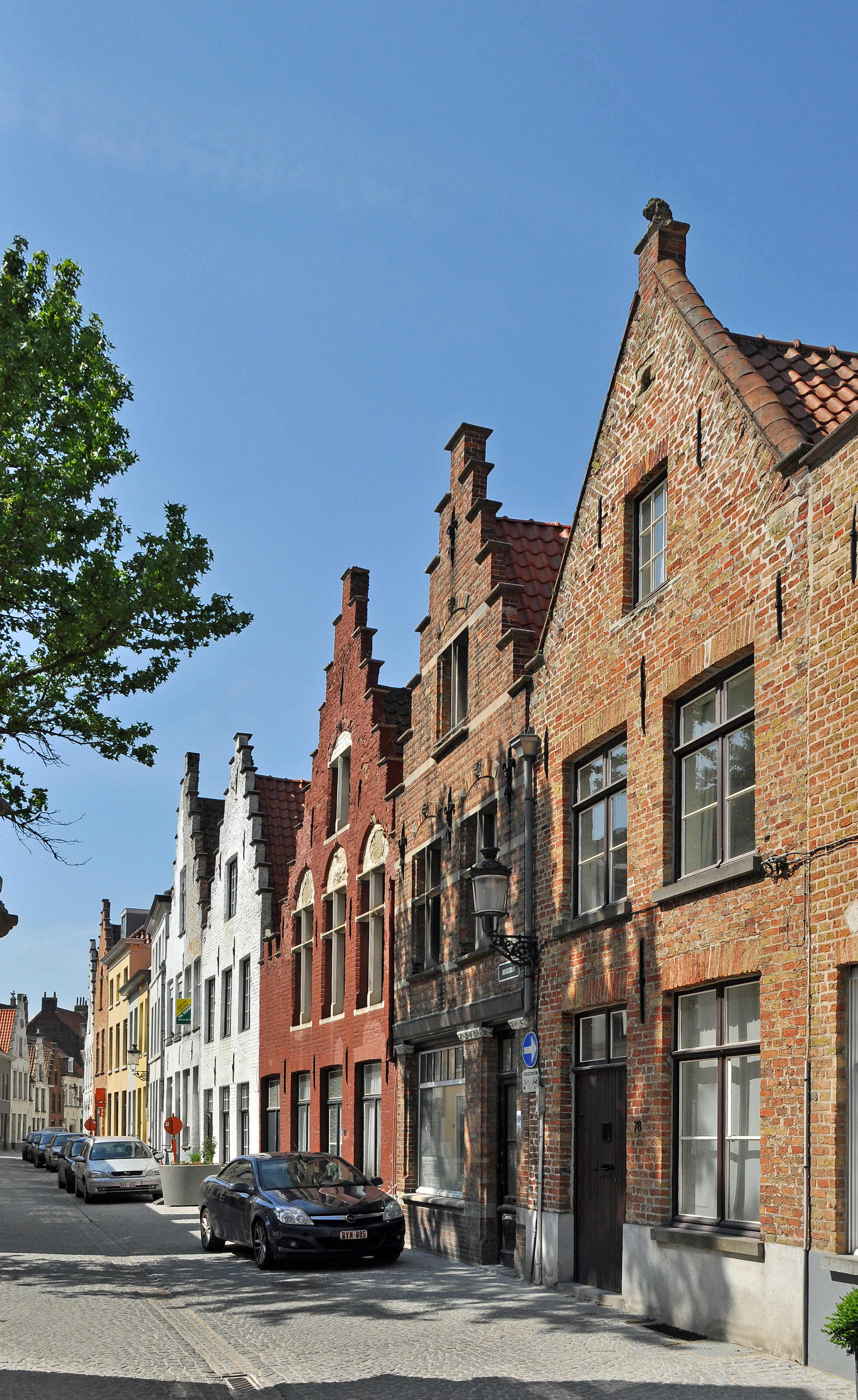 Bruges (Belgium): Moerstraat